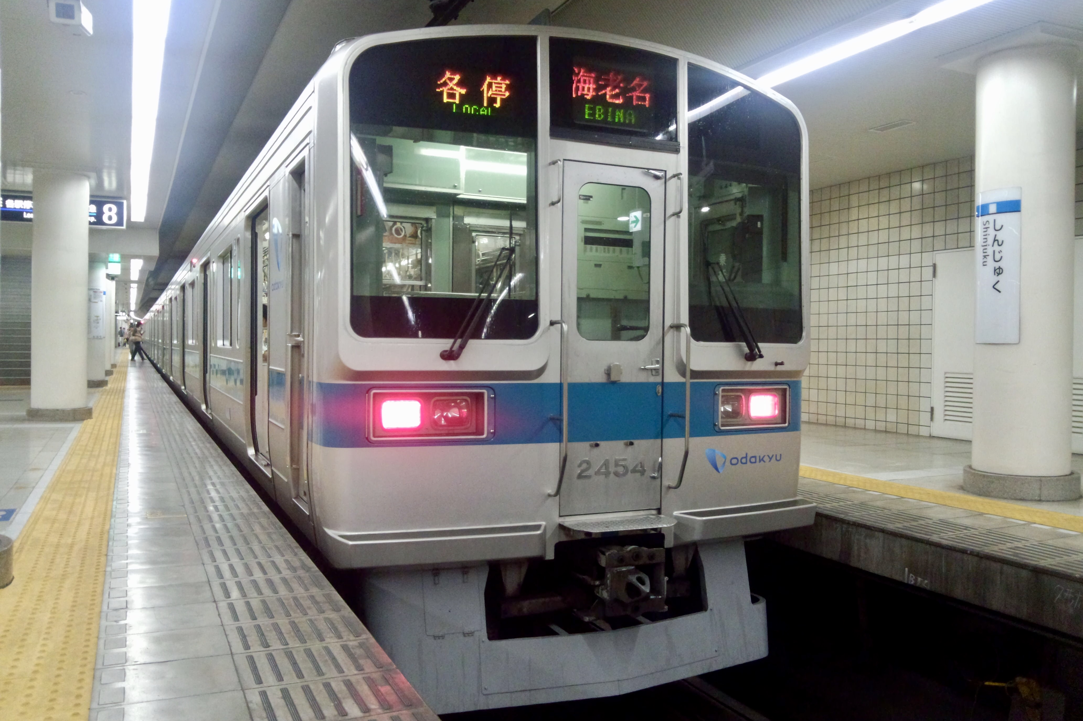 Odakyu Odawara line Local train for Ebina(series 2000)